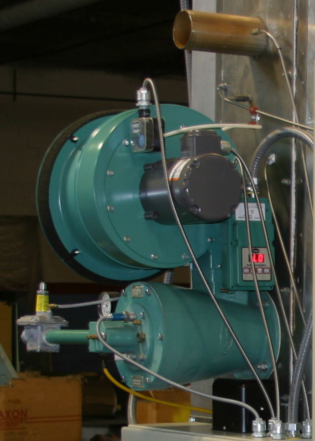 Modulating gas burner firing into tubular heat exchanger